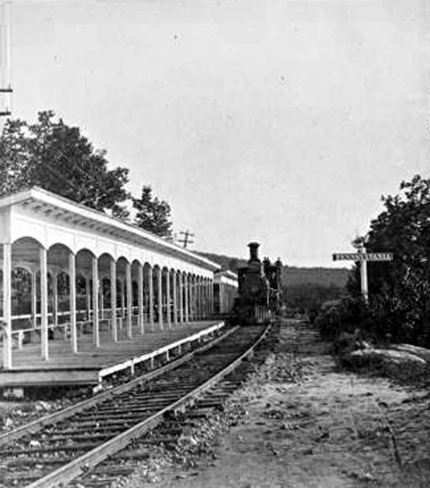 View of Western Maryland Railway station, Pen Mar, Maryland, USA.